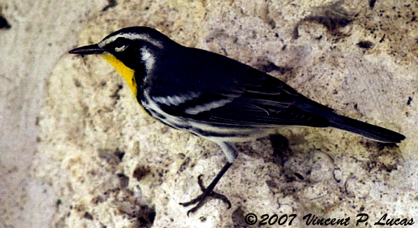 Yellow-throated Warbler (Dendroica dominica -- Family: Parulidae). Seen picking insects off of the walls at the Oasis Visitor's Center in the Big Cypress National Preserve, Monroe Station, Collier Co., Florida 01/08/2007